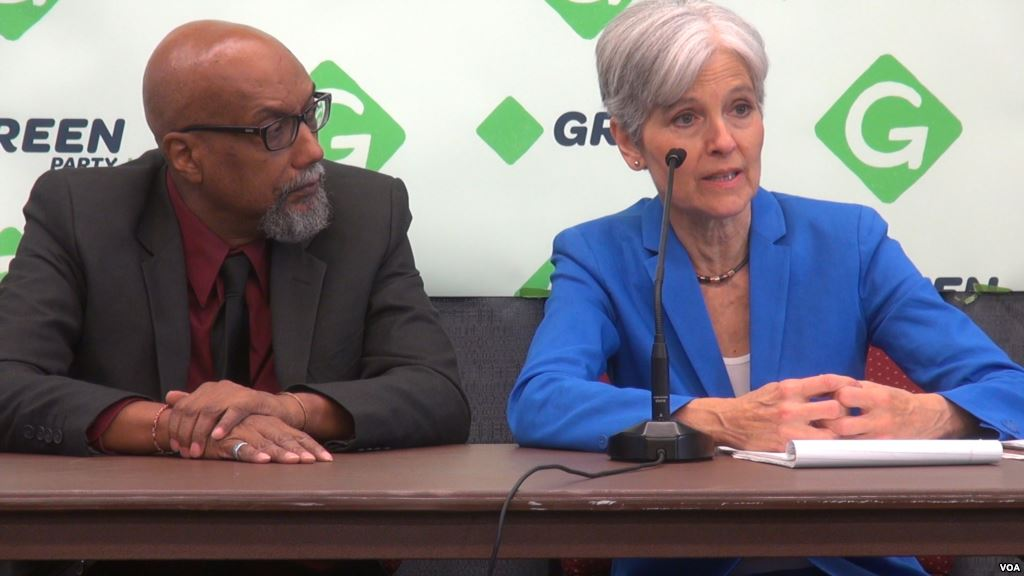 Jill Stein and her running mate Ajumu Baraka holding a press conference at the 2016 Green Party National Convention